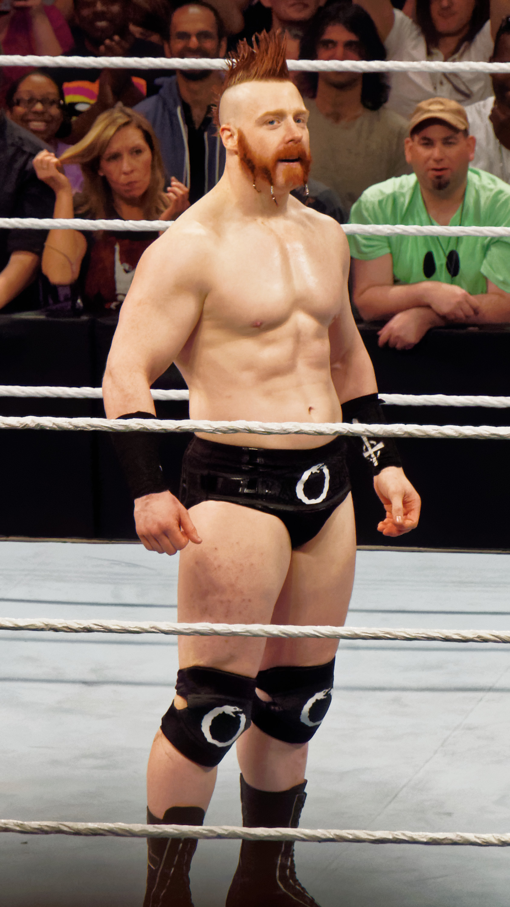 Sheamus in the ring during a WWE Raw television taping on March 30, 2015.